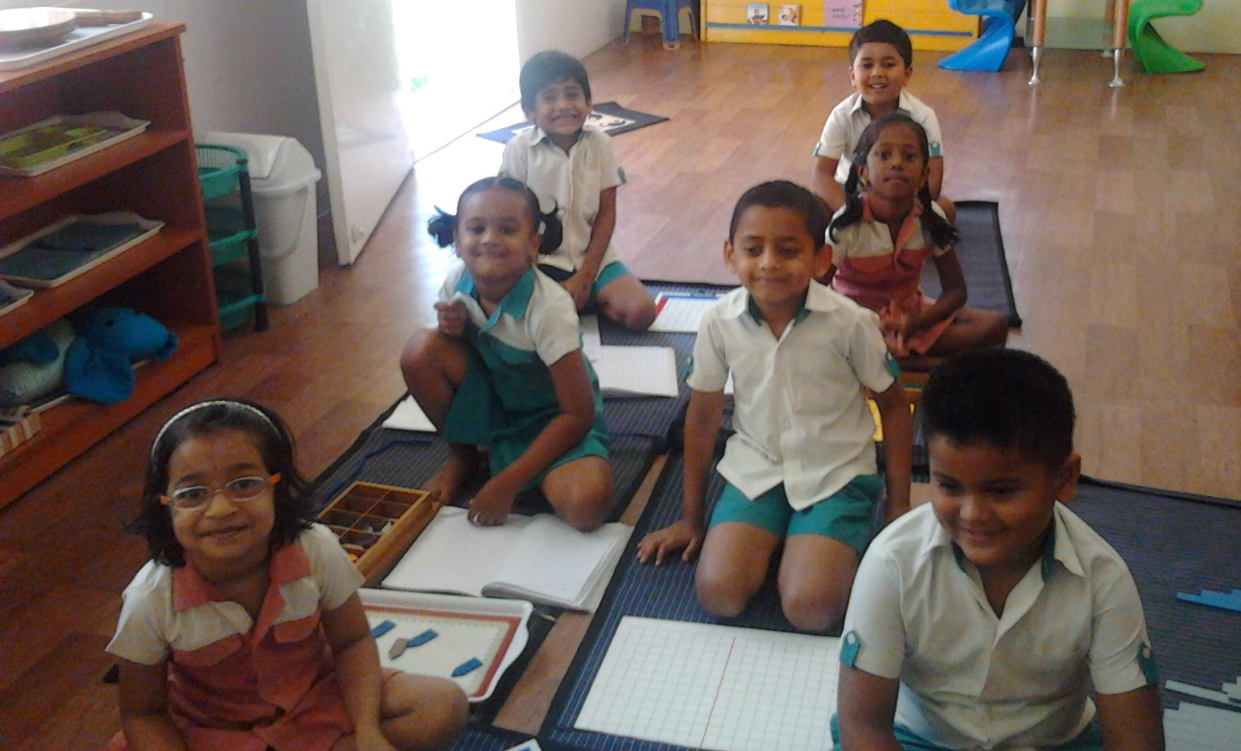 Montessori school in udumalpet